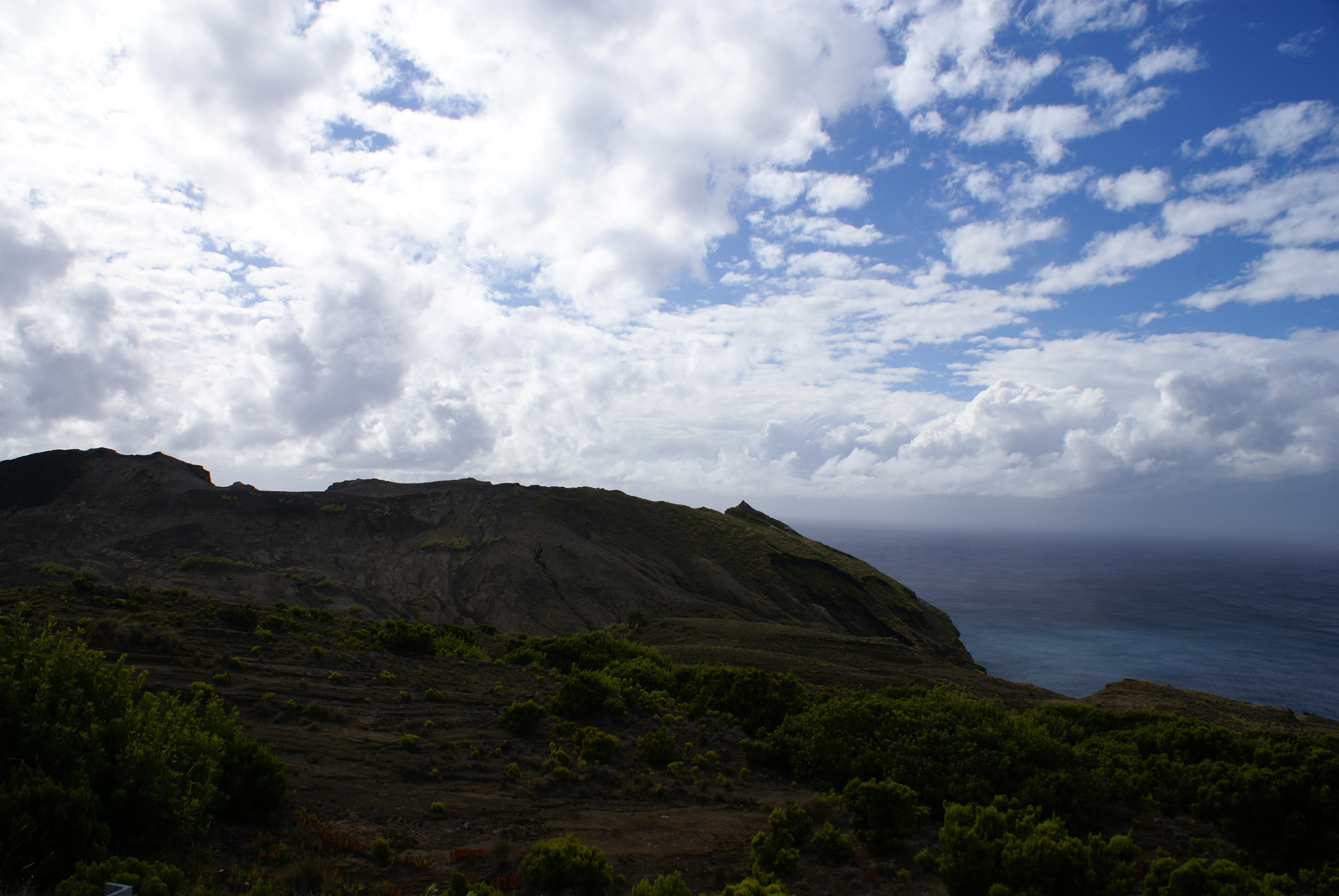 Vulcão dos Capelinhos, ilha do Faial, Açores, Portugal